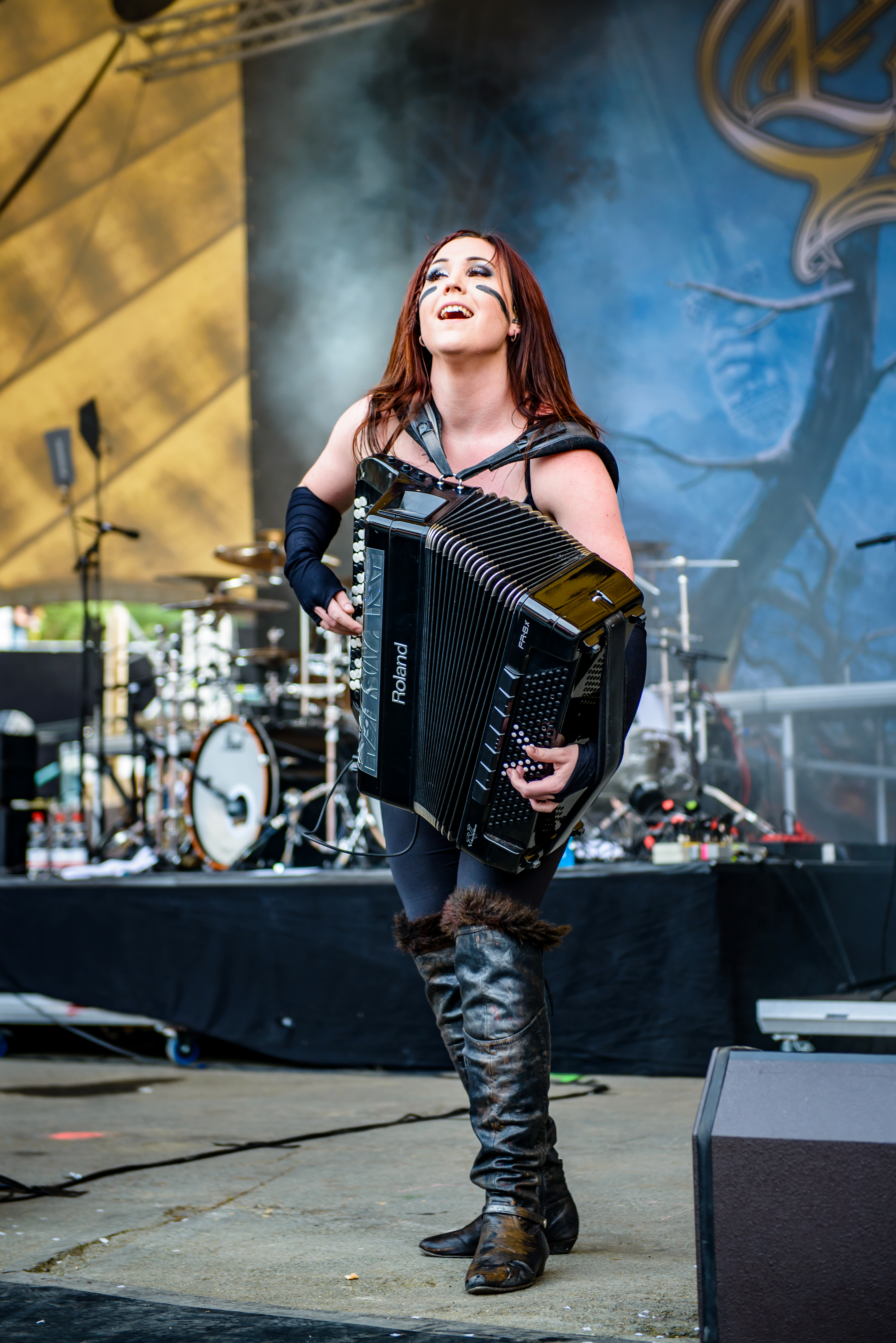 Ensiferum; RockFels 2016 - Loreley